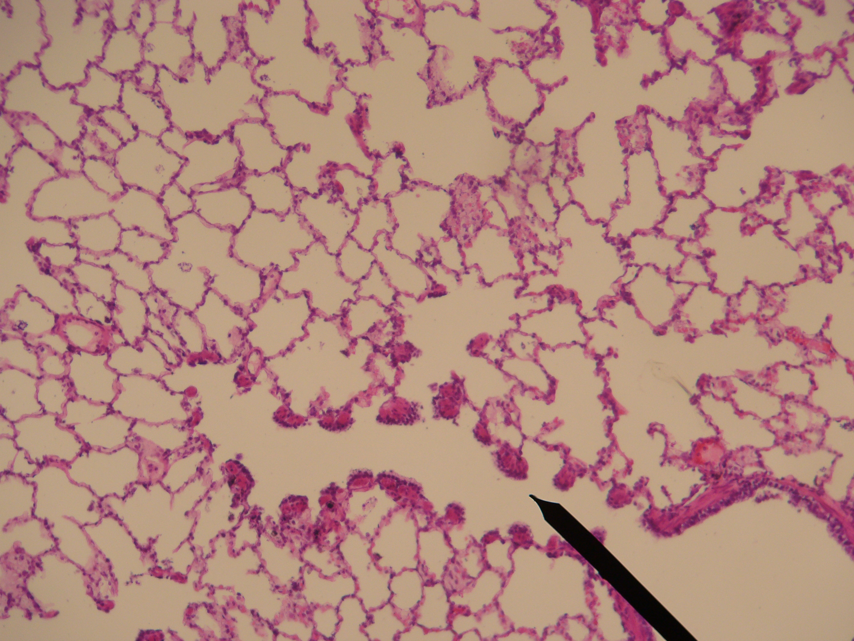 Author's own creation. Human tertiary bronchus. A digital camera shot through a microscope.